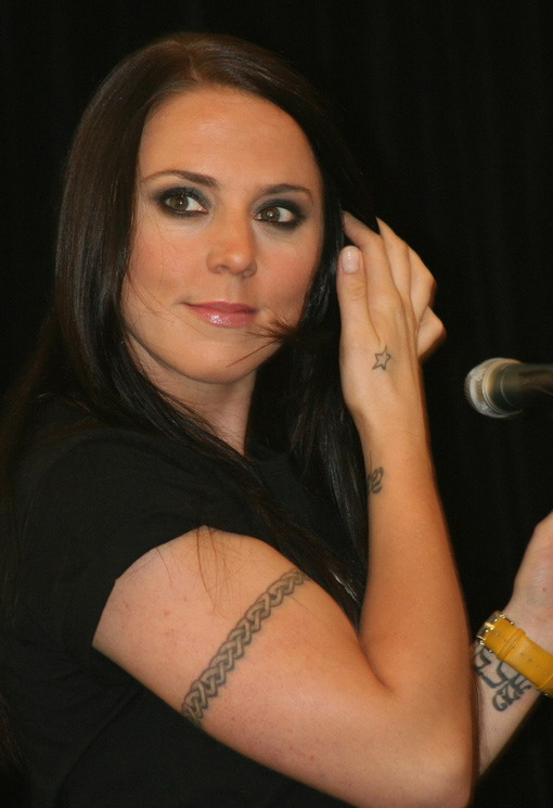 Melanie Chisholm, the ex-Spice Girl, came for a tiny promo tour/concert in 2005.